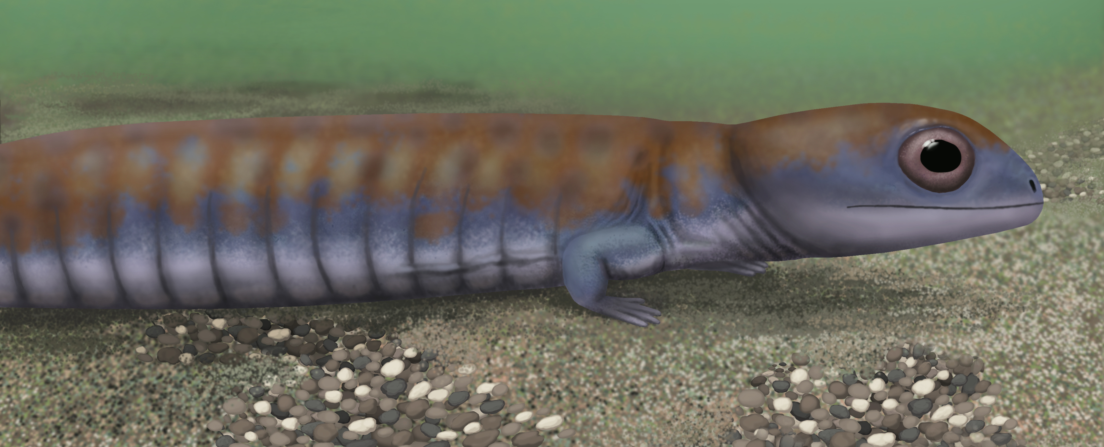 Crop of file in filename